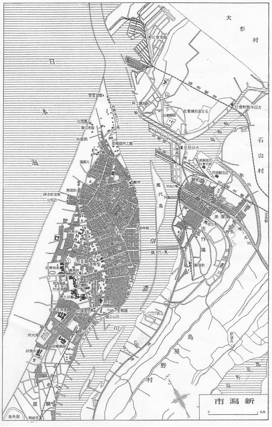 Niigata map circa 1930